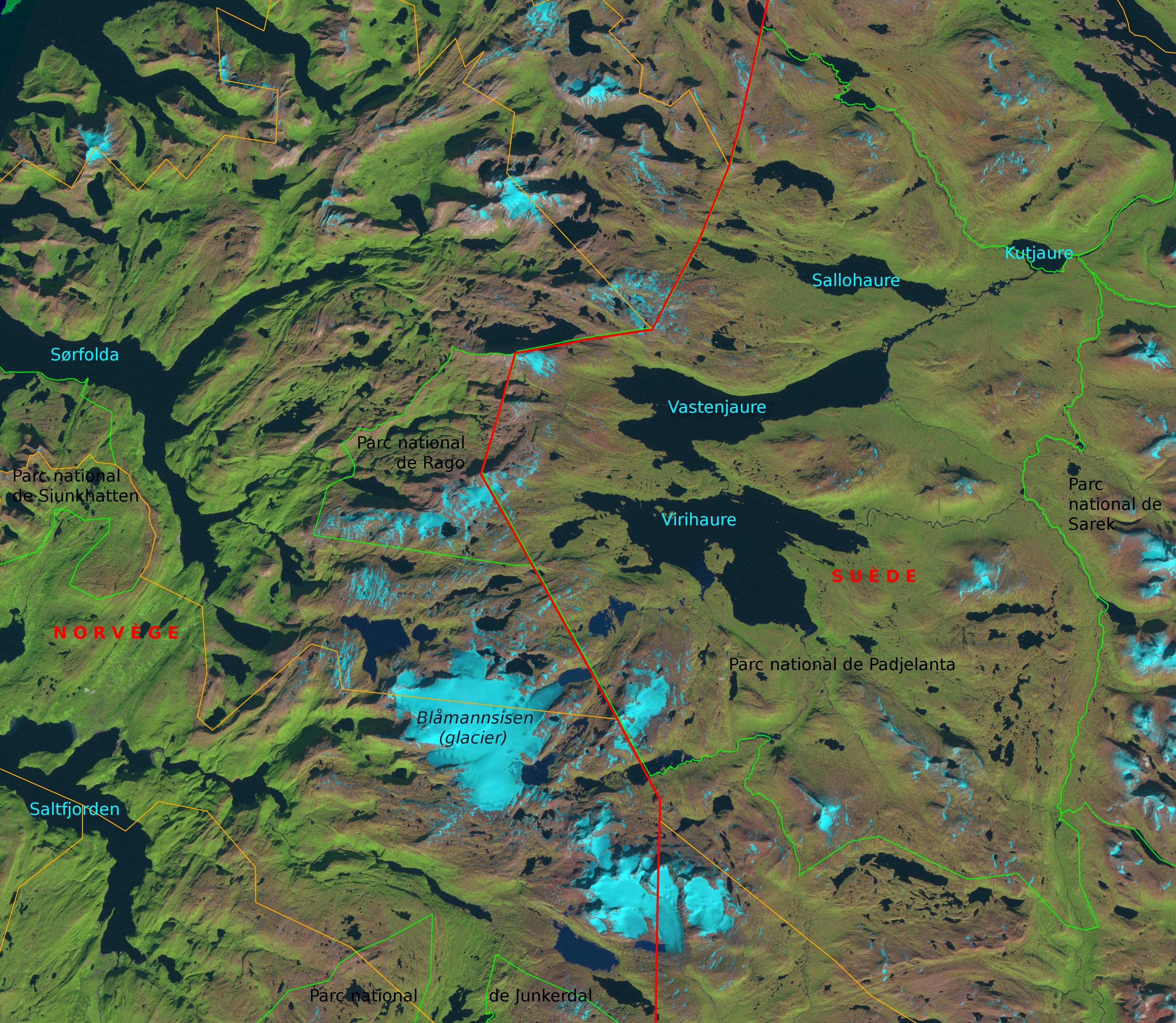 Hybrid map (satellite/vector format) in French language of Padjelanta National Park.